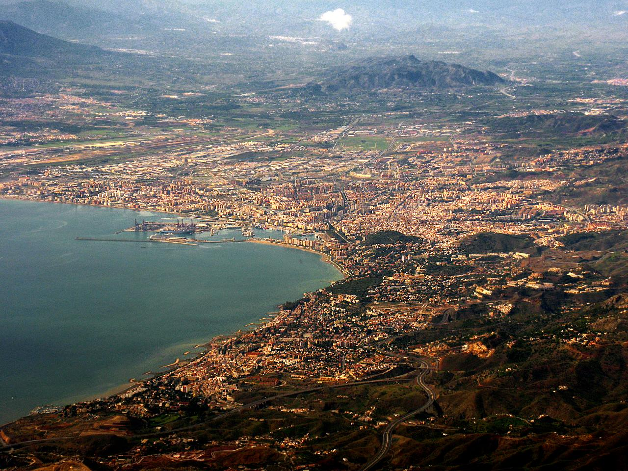 Aerial view of Málaga, Spain